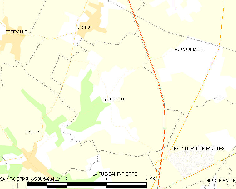 Map of French municipality Yquebeuf